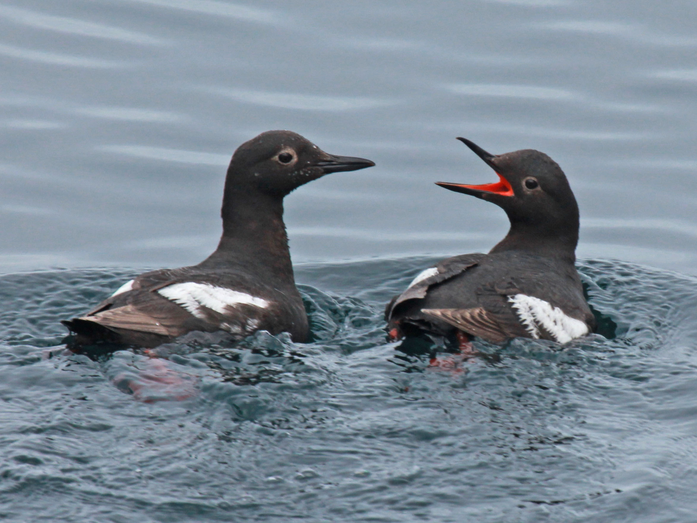 Pigeon Guillemot (Cepphus columba) near Gull Island, Kachemak Bay, Alaska